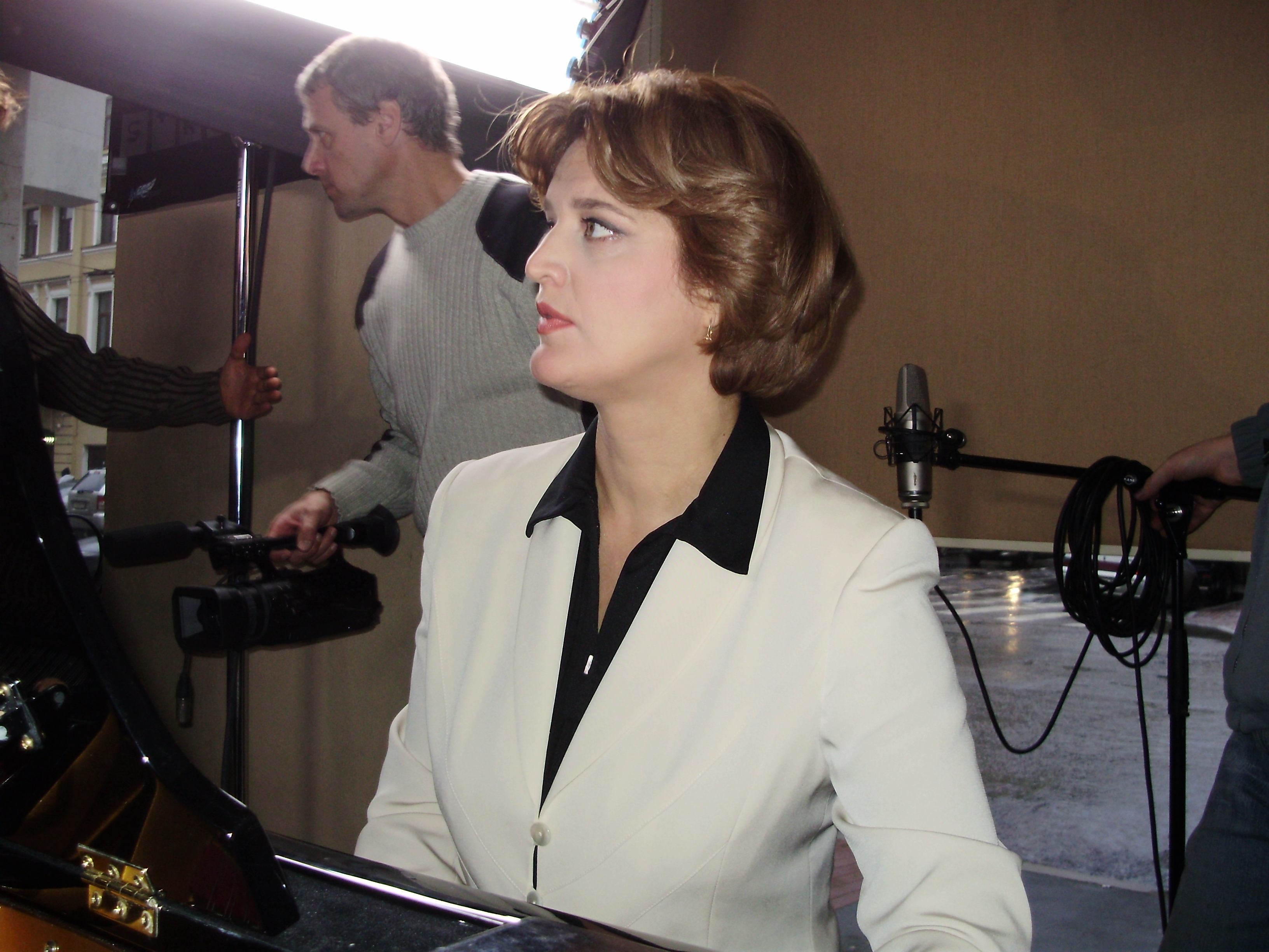 Marina Osman in concert in St Petersburg